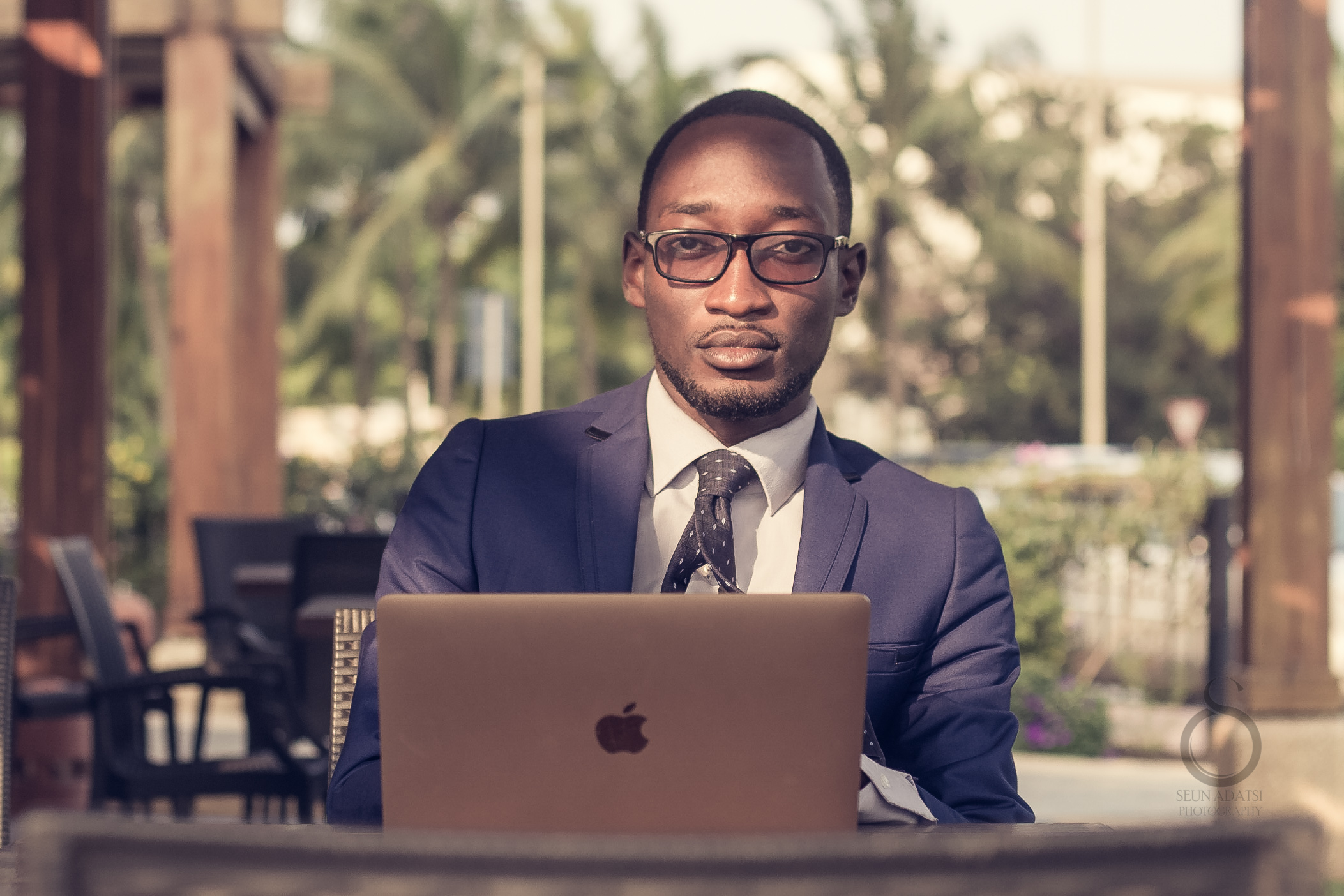 Yaw Ansong Jnr, CEO of LoveRealm